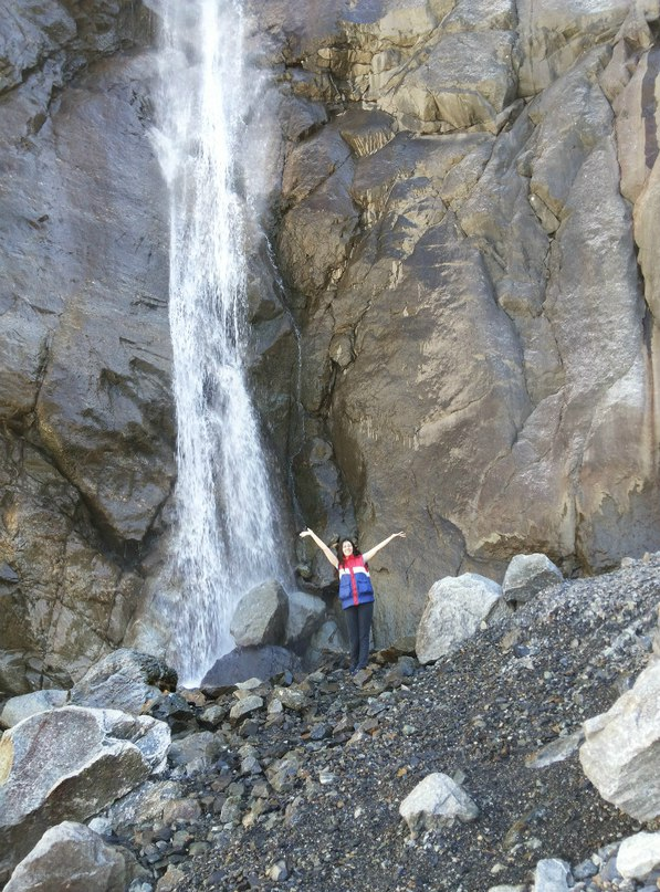 Midagrabinskie waterfalls in North Ossetia